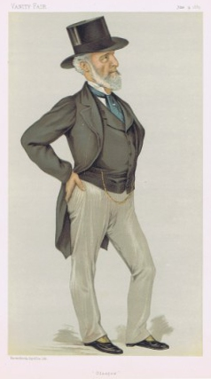 Caricature of Mr CC Tennant MP. Caption read "Glasgow".